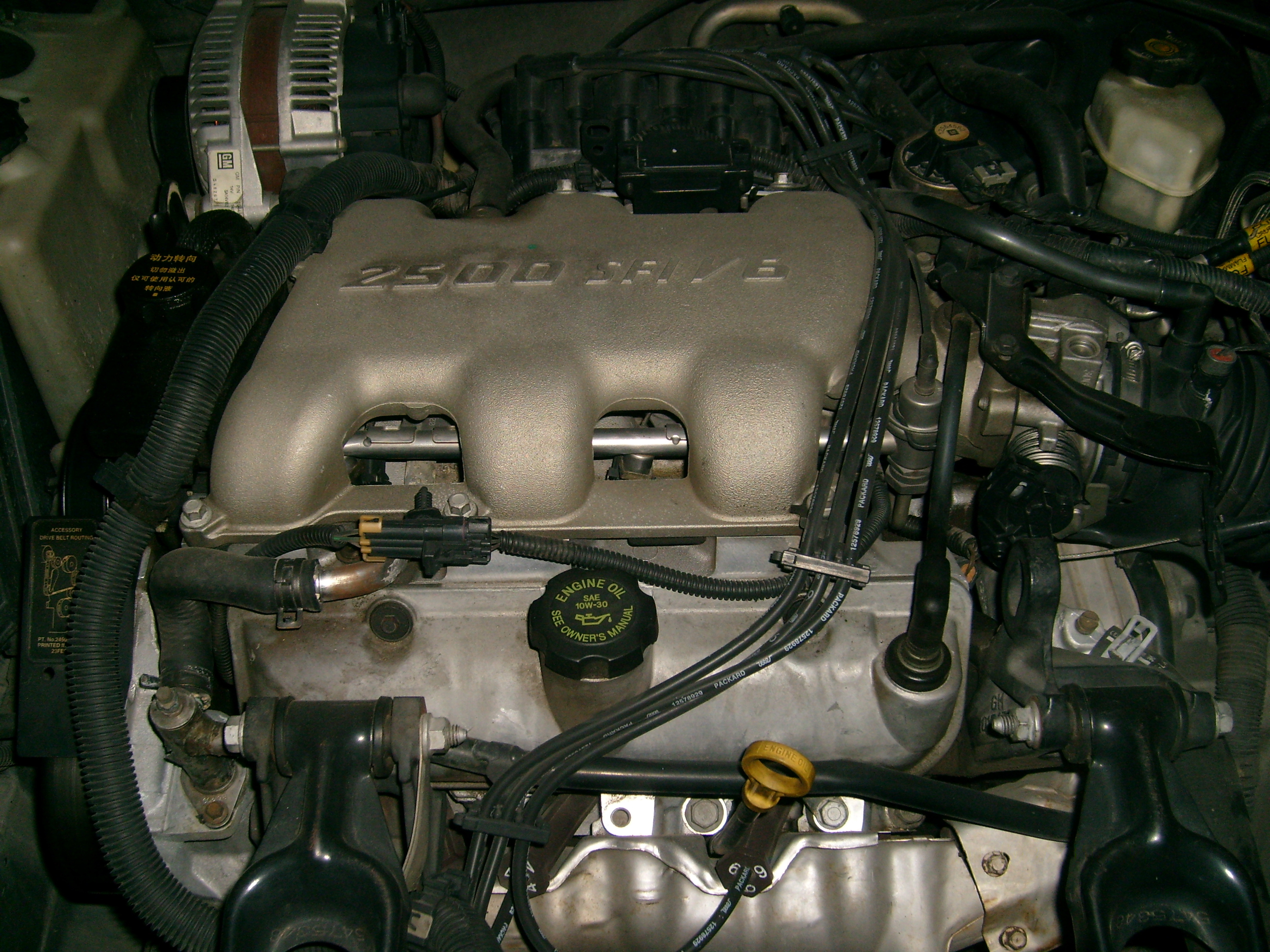 V6 engine of Buick G model made in Shanghai GM,China(2002)